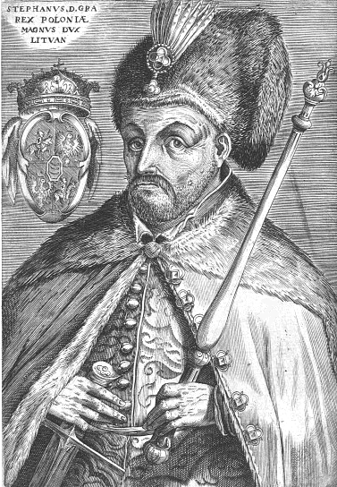 Stephen Bathory King of Poland